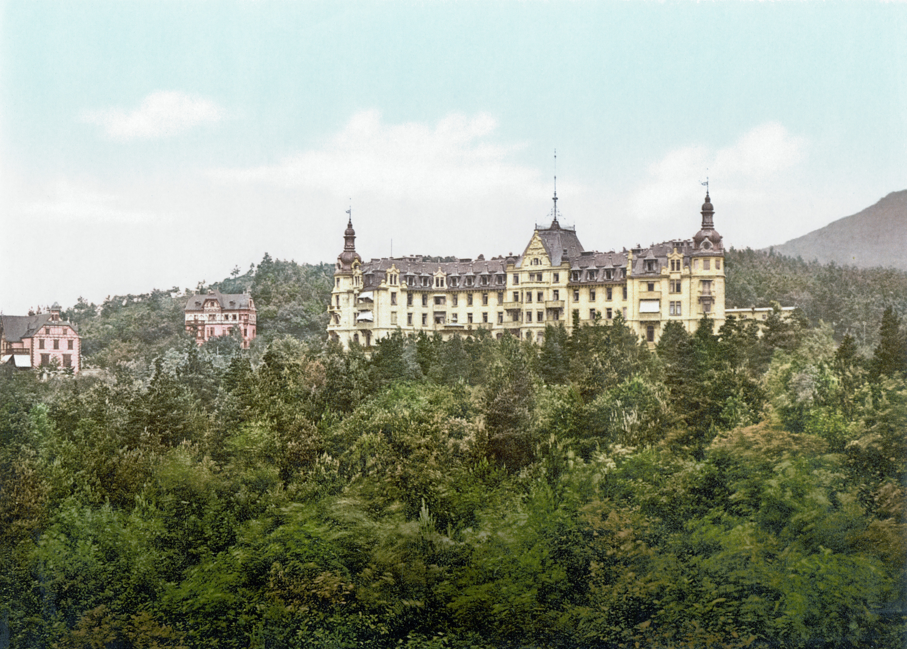 Hohenhonnef Sanatarium, (Bad) Honnef, the Rhine, Germany. around 1900